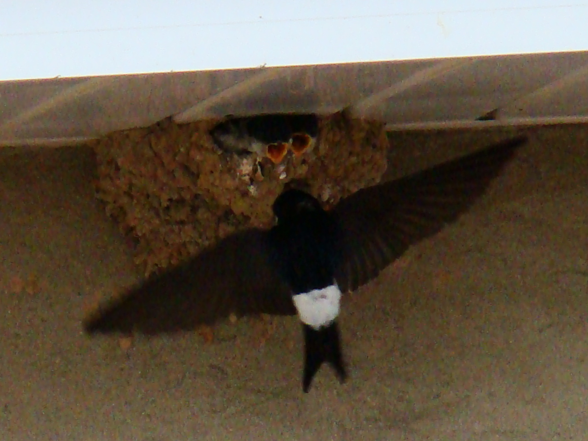 Photo of the House Martin (Delichon urbicum) in Raizgiai, Siauliai, Lithuania.